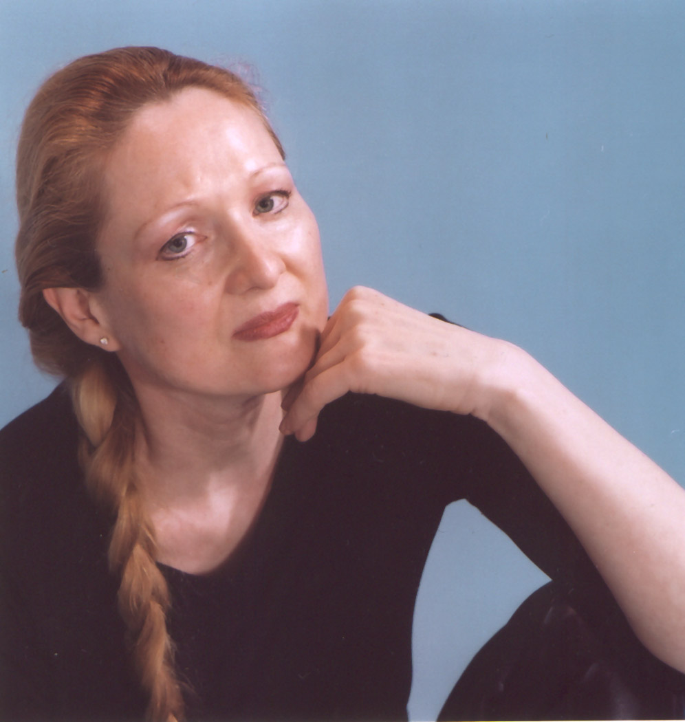 Evelin Lindner, picture taken by Evelin Frerk in 2001